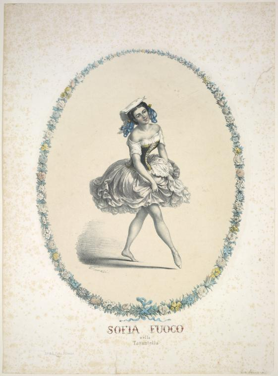 Sofia Fuoco nella Tarantella, lithograph